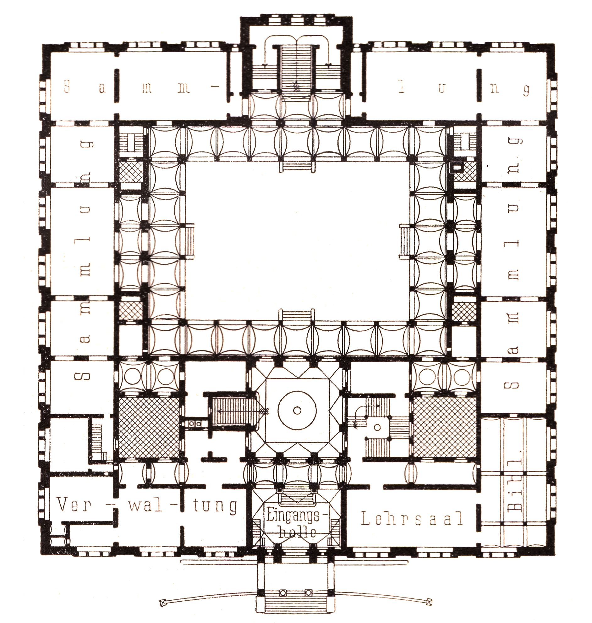 Berlin - former Museum of Applied Arts (now Martin-Gropius-Bau), plan ground floor